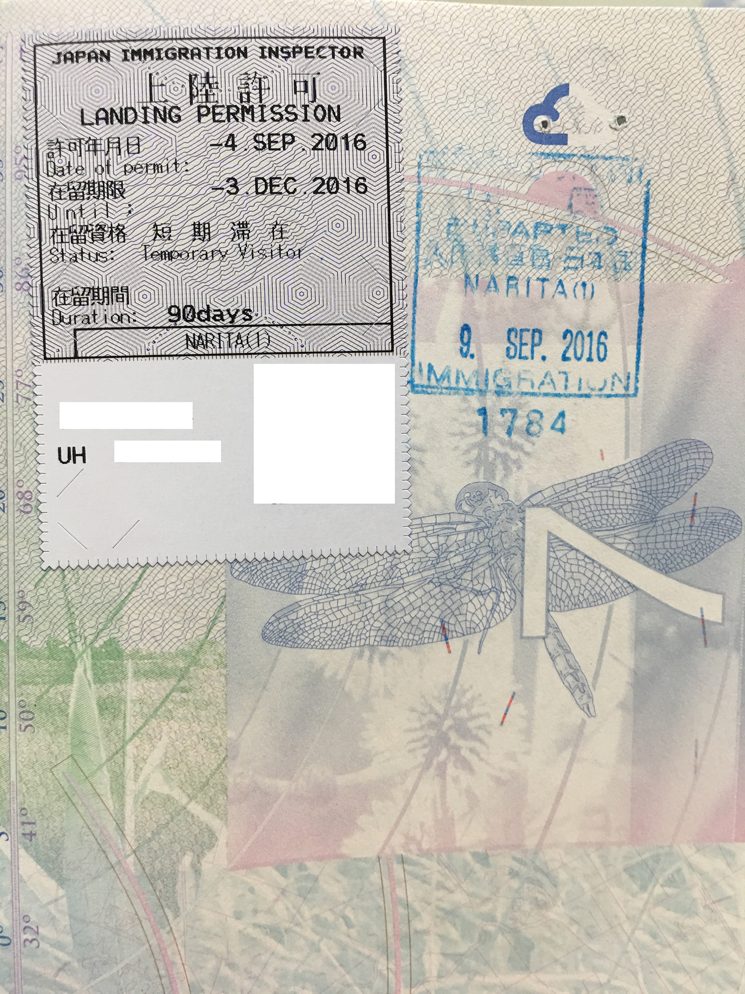 Japan Narita International Airport Landing Permission Sticker and Departed Stamp